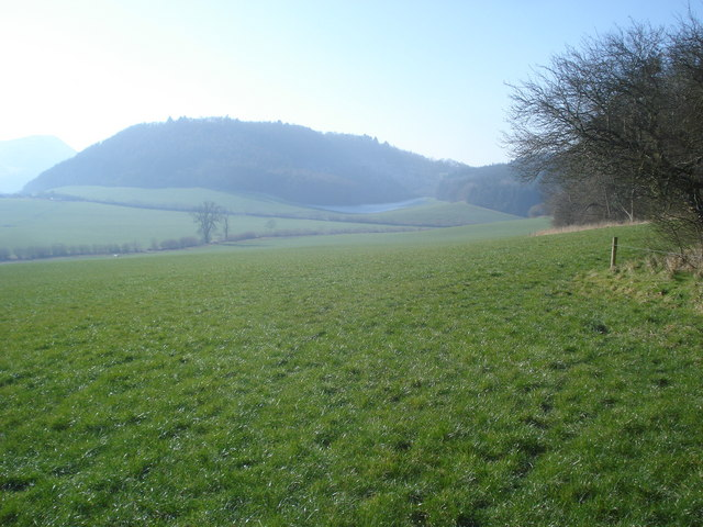 Grassland at Knill Farm - 2 From Upper Woodside looking south-west to the hillfort at Burfa Bank. Despite the sun shining all day, by mid-afternoon the February frost has not melted in the shadow of this steep hill. Herrock Hill in the distance to the left.